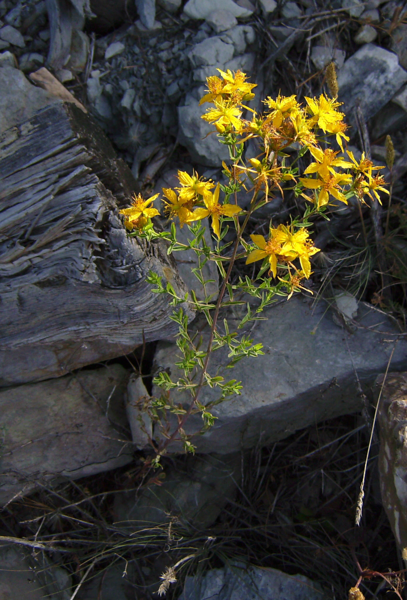 Hypericum perforatum "on the rocks", Castelltallat, Catalonia